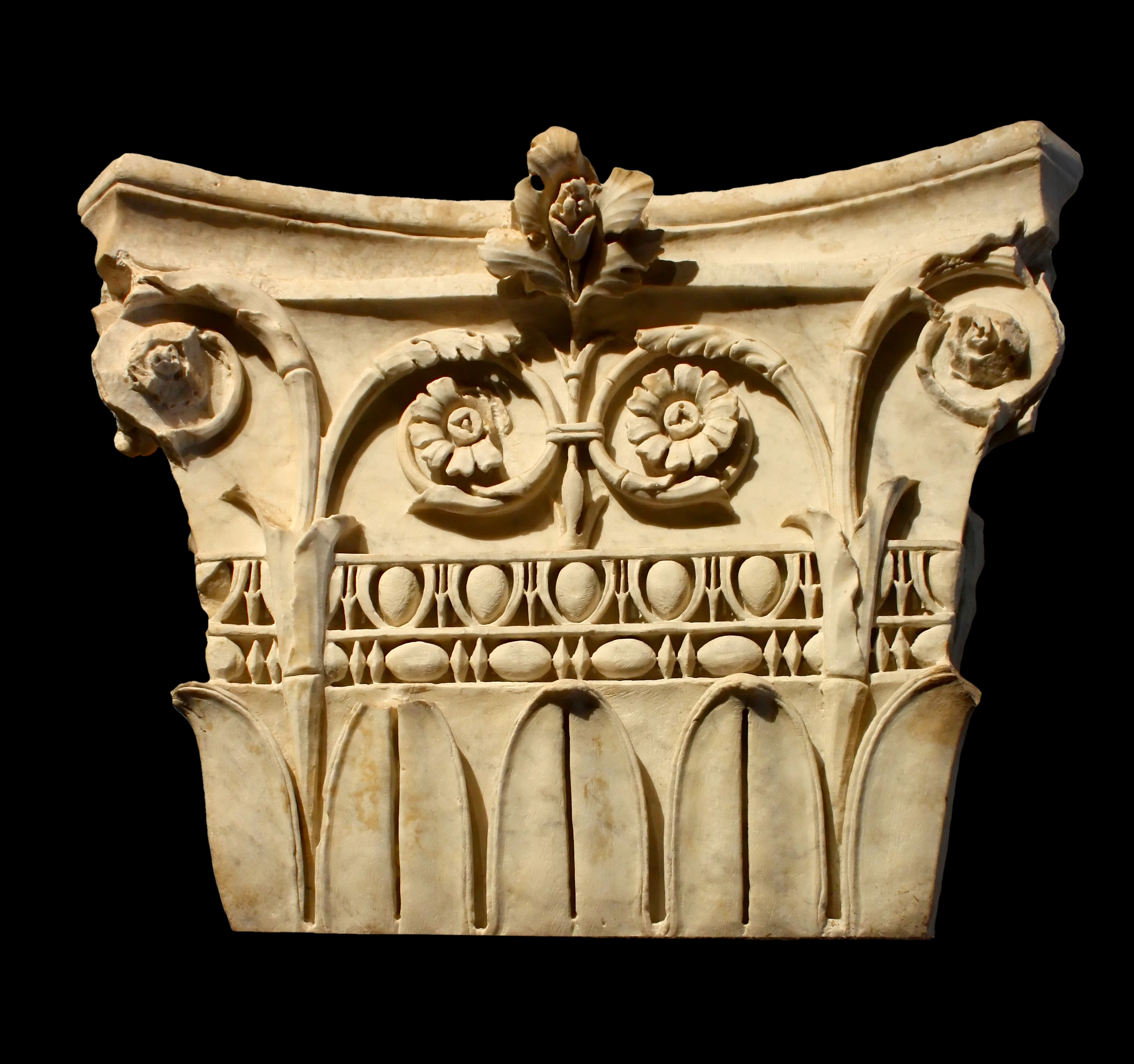 Corinthian capitals of pilaster White marble From Rome, northern slope of the Janiculum Hill (1999) Julio-claudian period Rome, Soprintendenza Speciale per i Beni Archeologici.